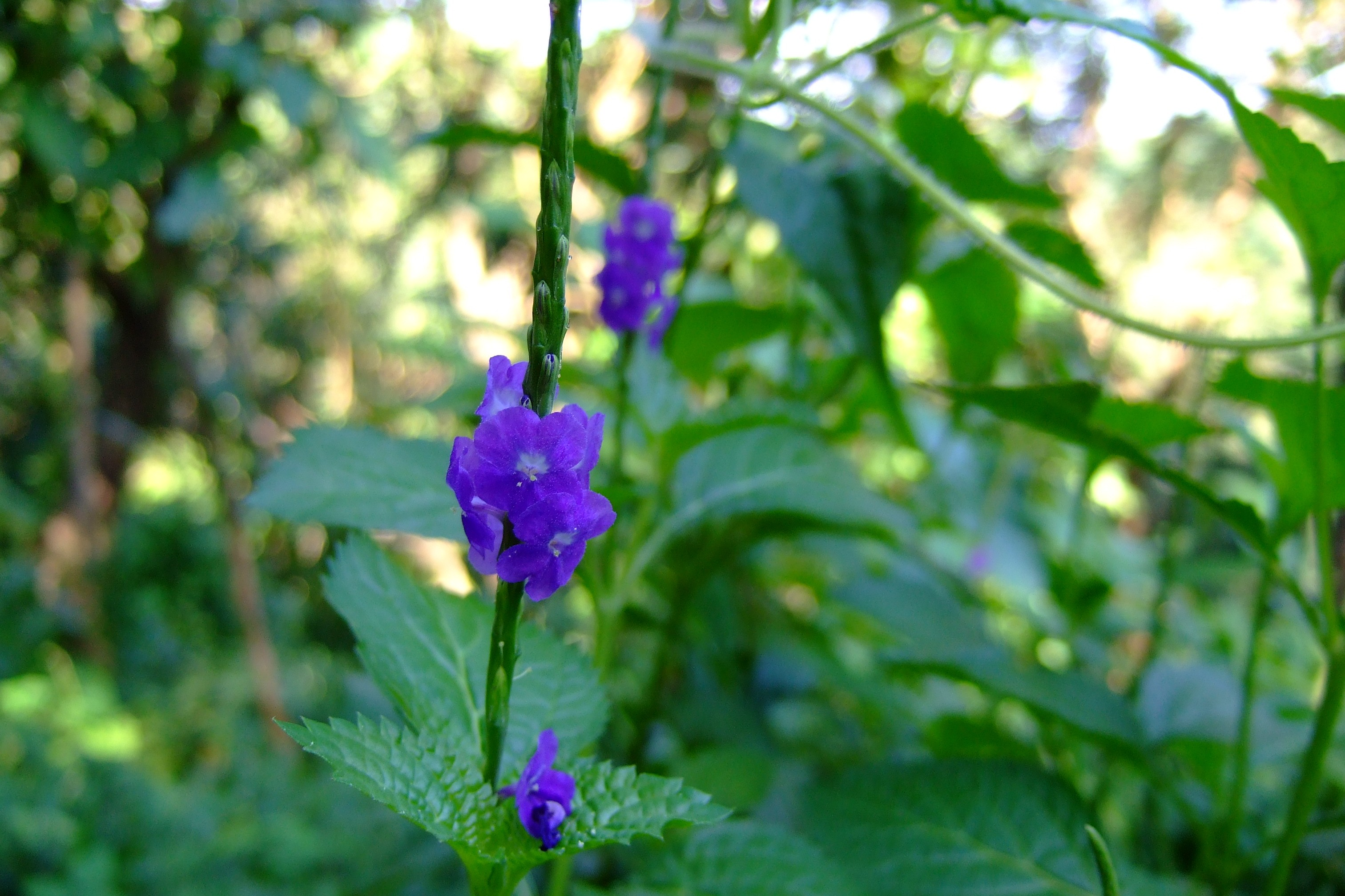 Stachytarpheta jamaicensis (Flower); Tn̂g-sūi-bo̍k (hoe ê te̍k-siá)